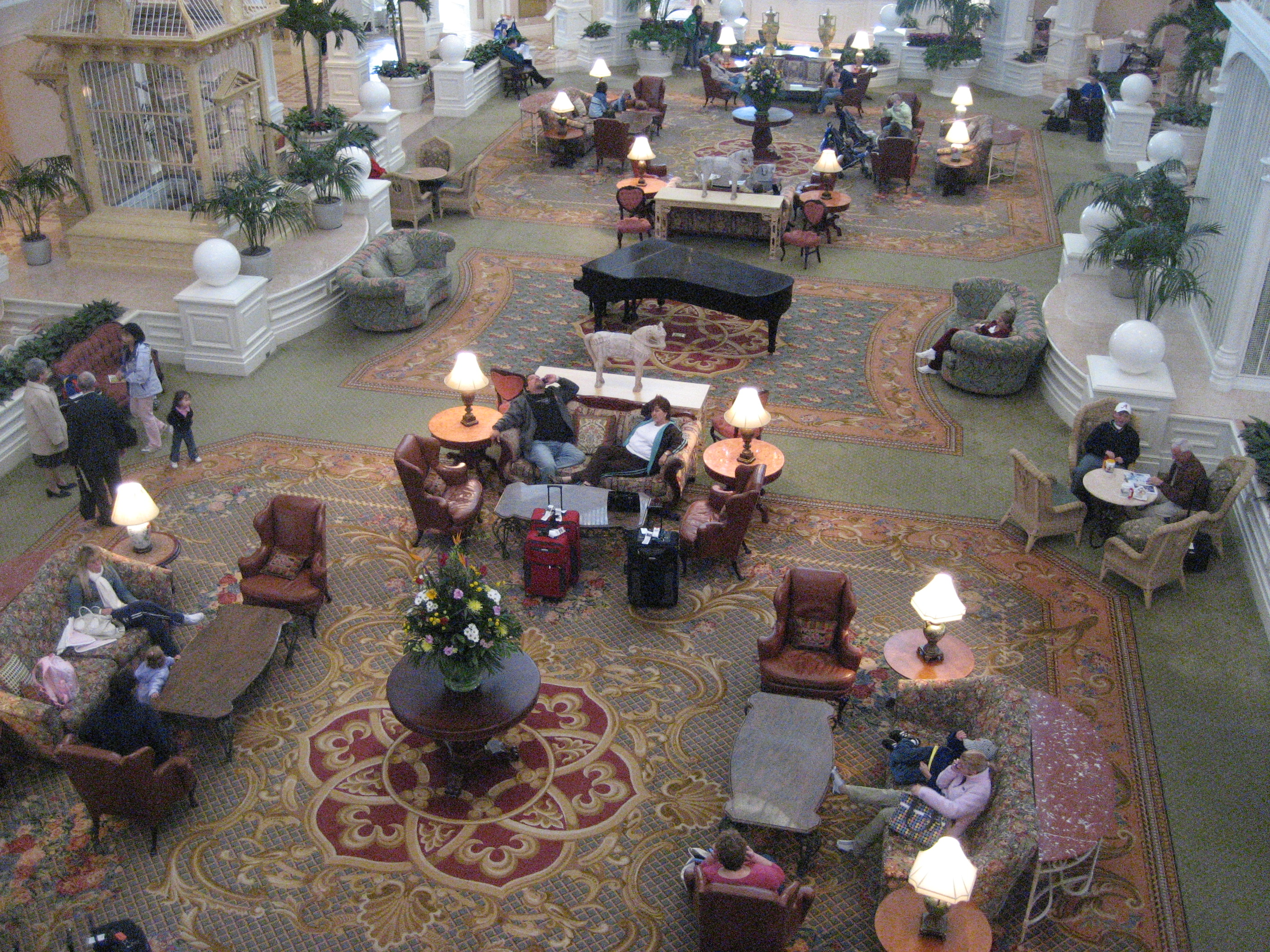 The main lobby of Disney's Grand Floridian Resort and Spa as seen from the second floor balcony. Taken on President's Day, 2007. Photo By: Chris Green